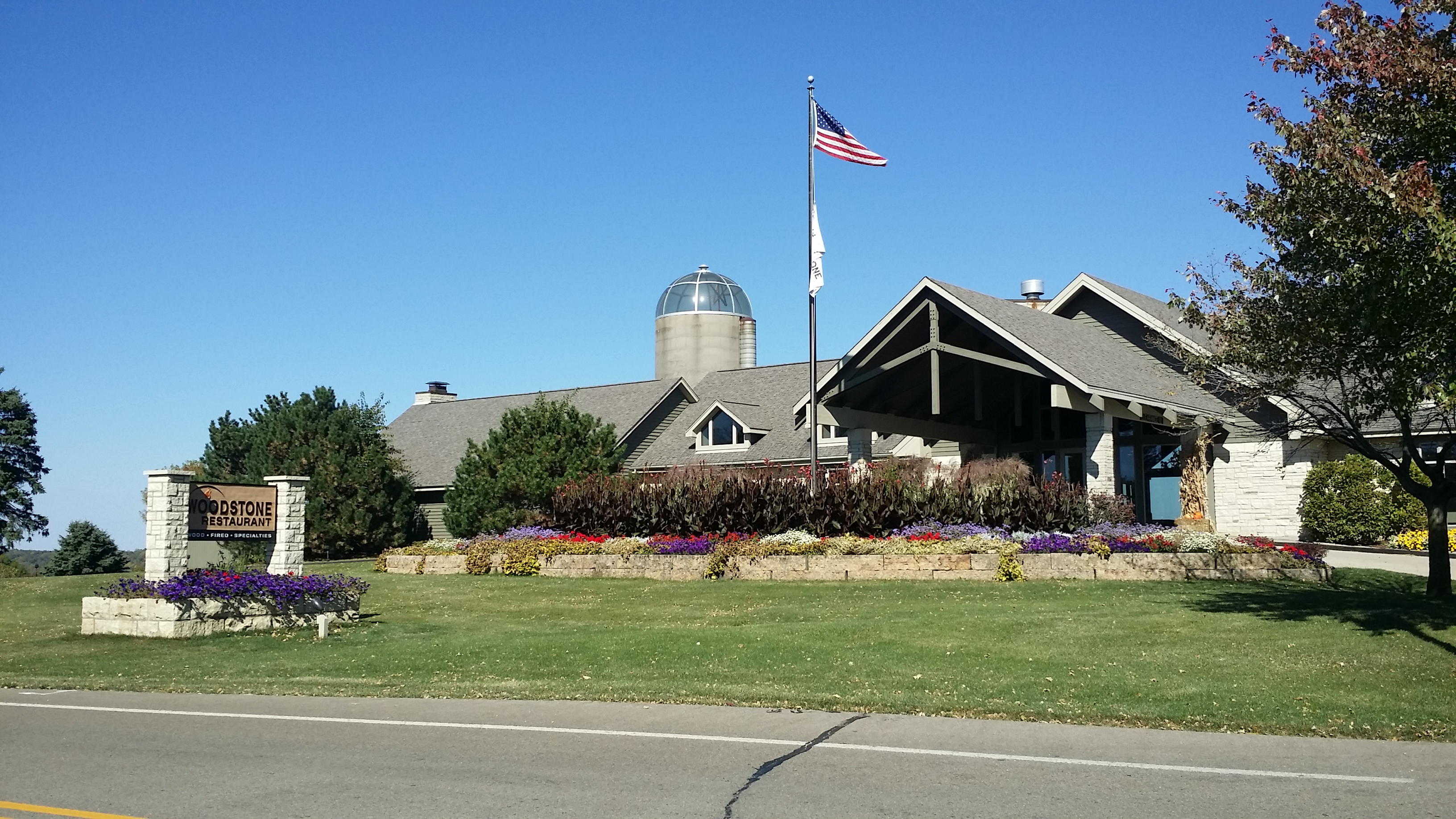 Woodstone Restaurant near Galena, Illinois